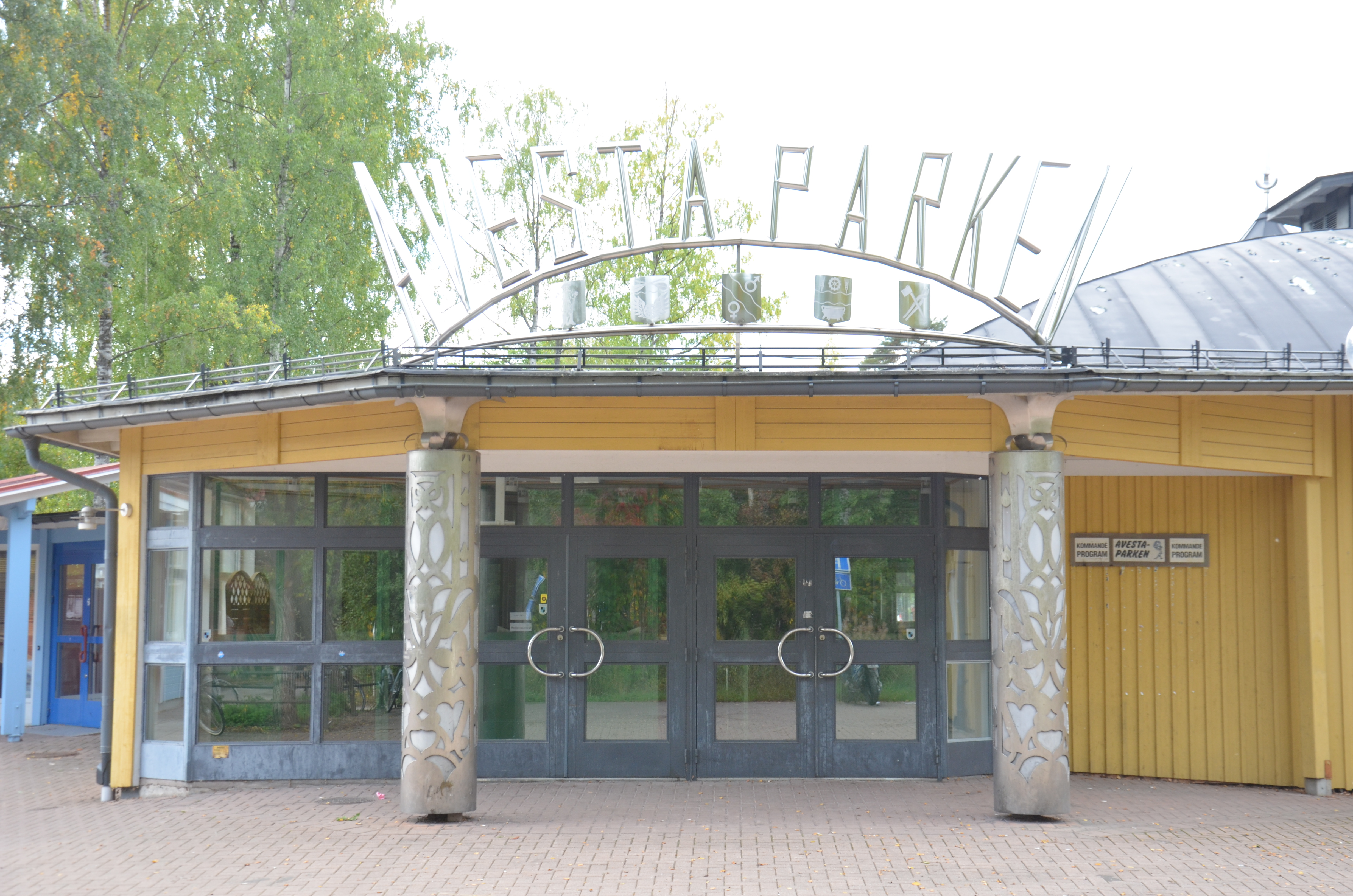 Portutsmyckning vid östra ingången till Folkets park i Avesta, av Lars Andersson